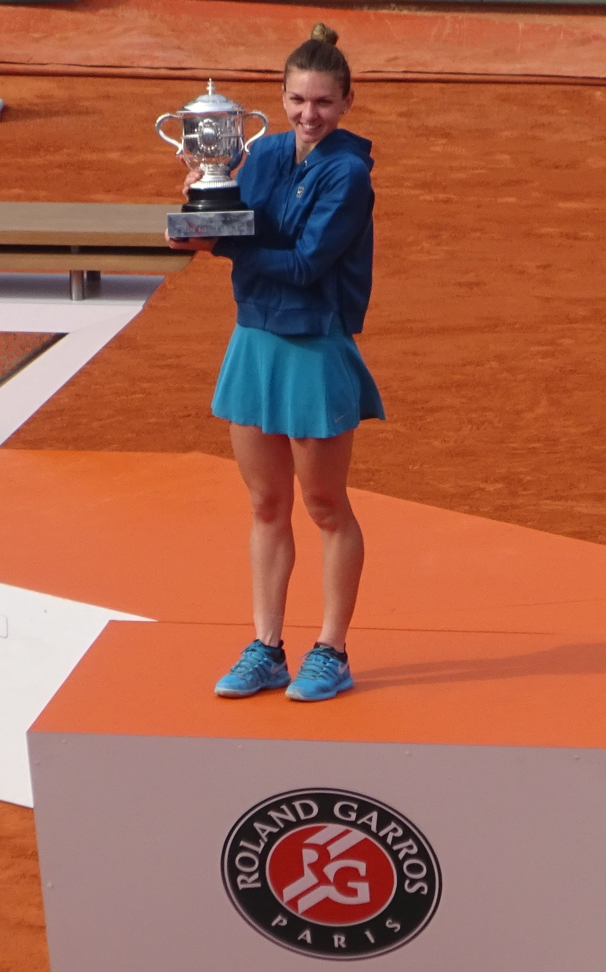 Simona Halep won her first grandslam singles title at the Roland Garros 2018